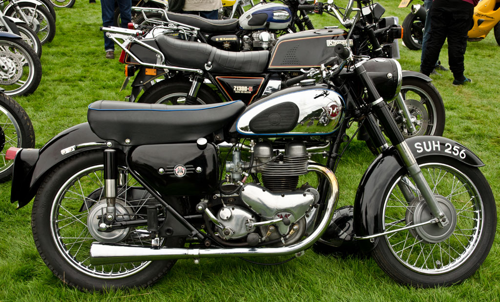 Arley Hall Classic Car Show 23/09/2012